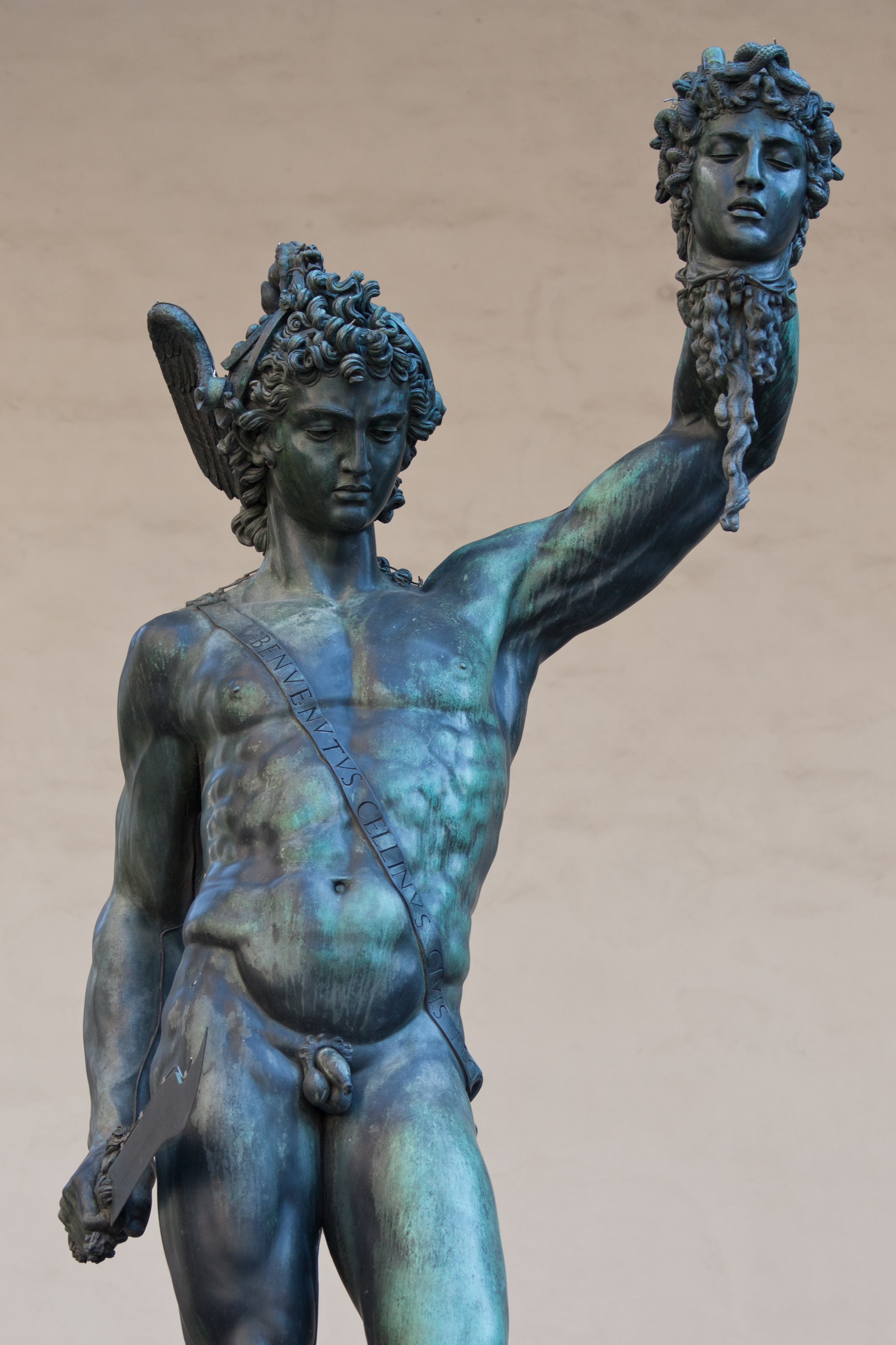 Perseus with the Head of Medusa, bronze statue by Benvenuto Cellini in the Loggia dei Lanzi in Florence.